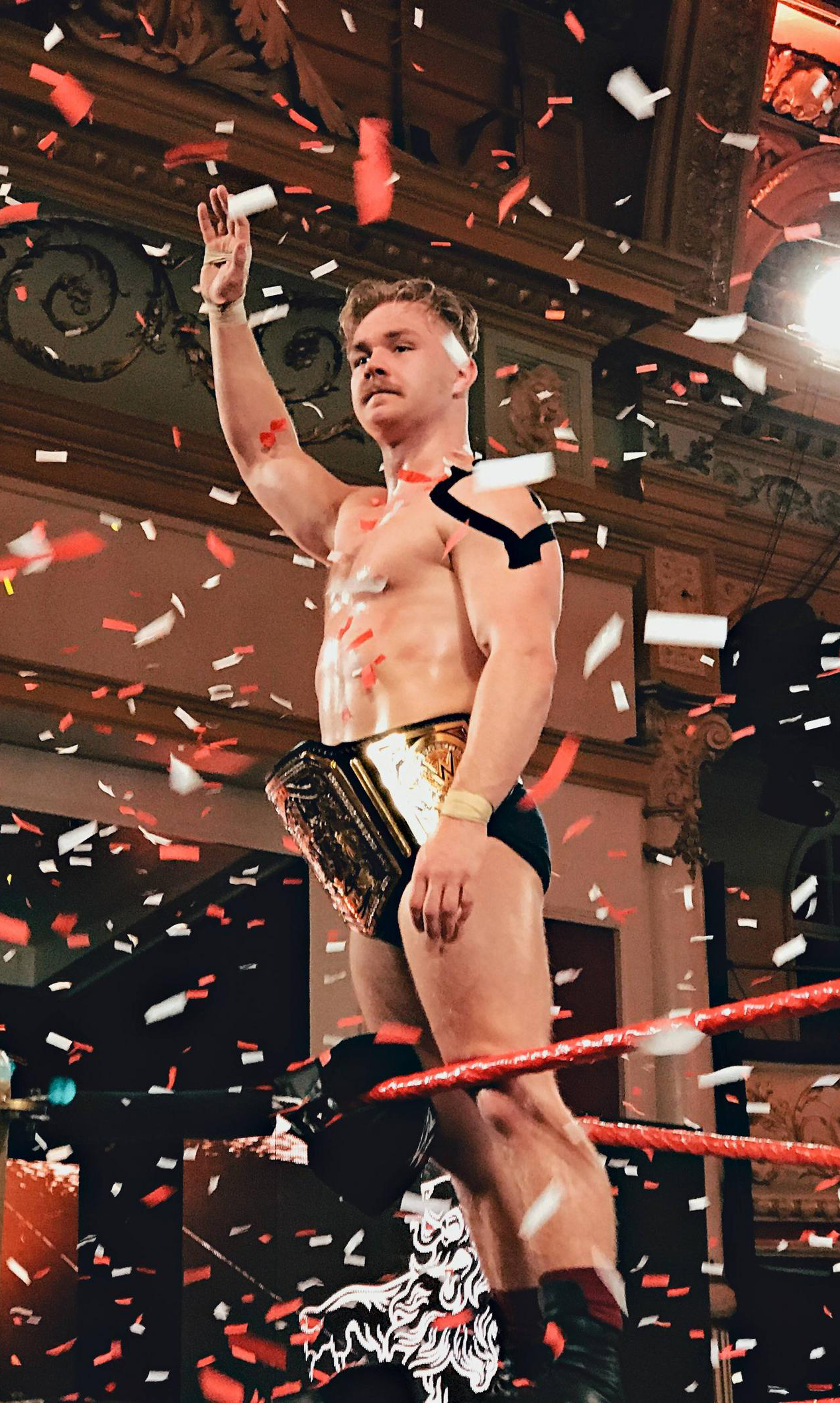 Celebrating his WWE UK Championship win at the Empress Ballroom, Blackpool